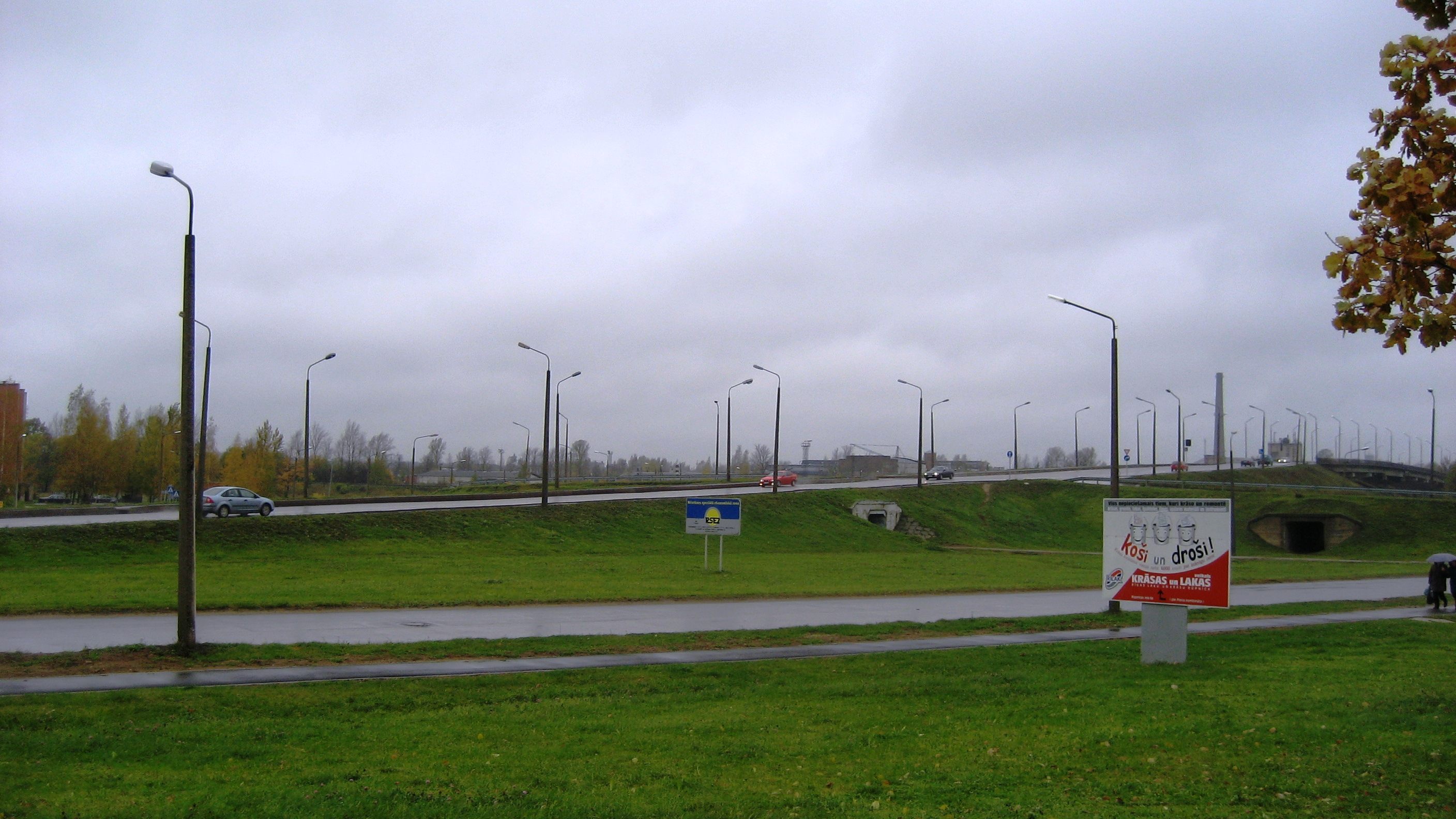 Bridge over the railway in Rēzekne, Northern part of city.